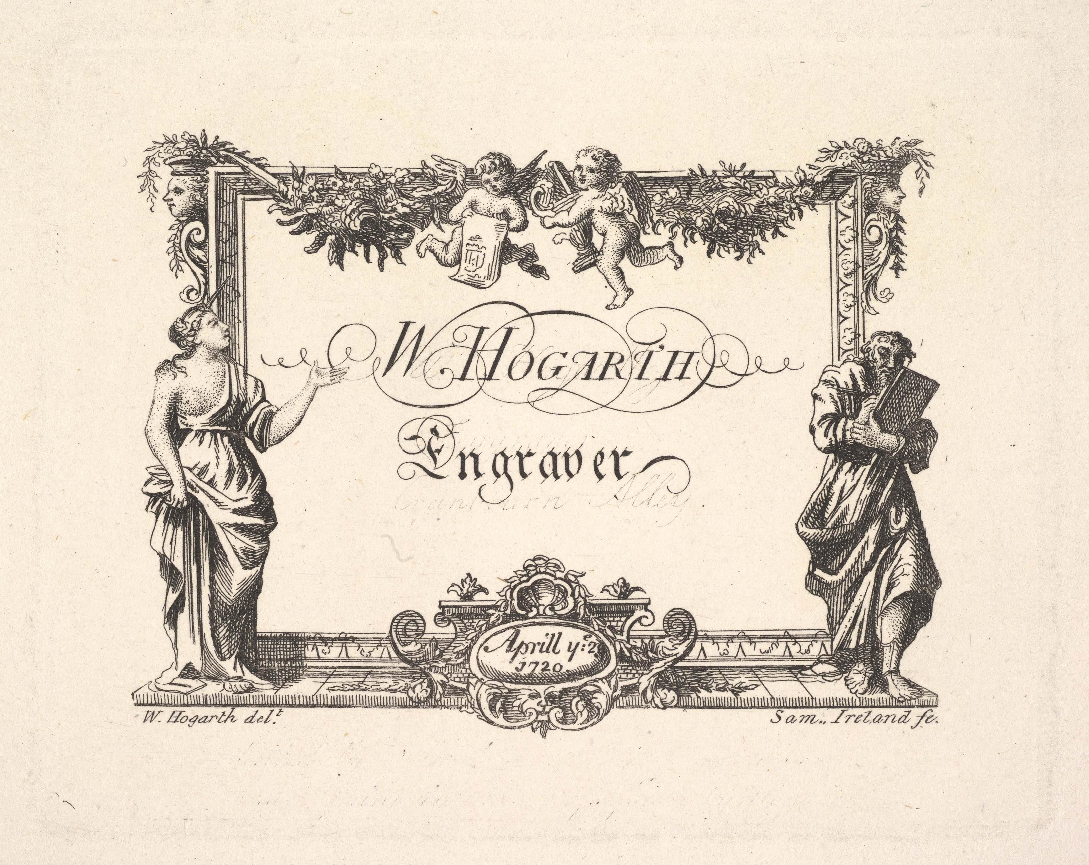 Print; Prints